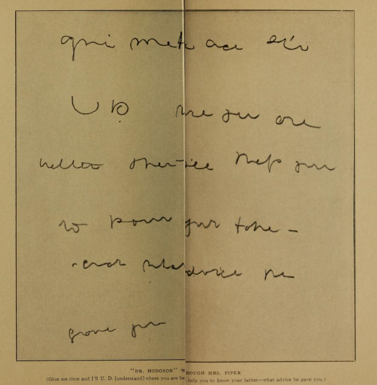 Automatic writing of the medium Leonora Piper alleged to be from the spirit Richard Hodgson.